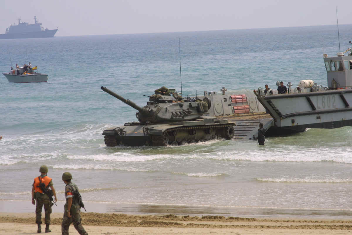 Un M60 A3 TTS desembarcando de una LCM-1E.